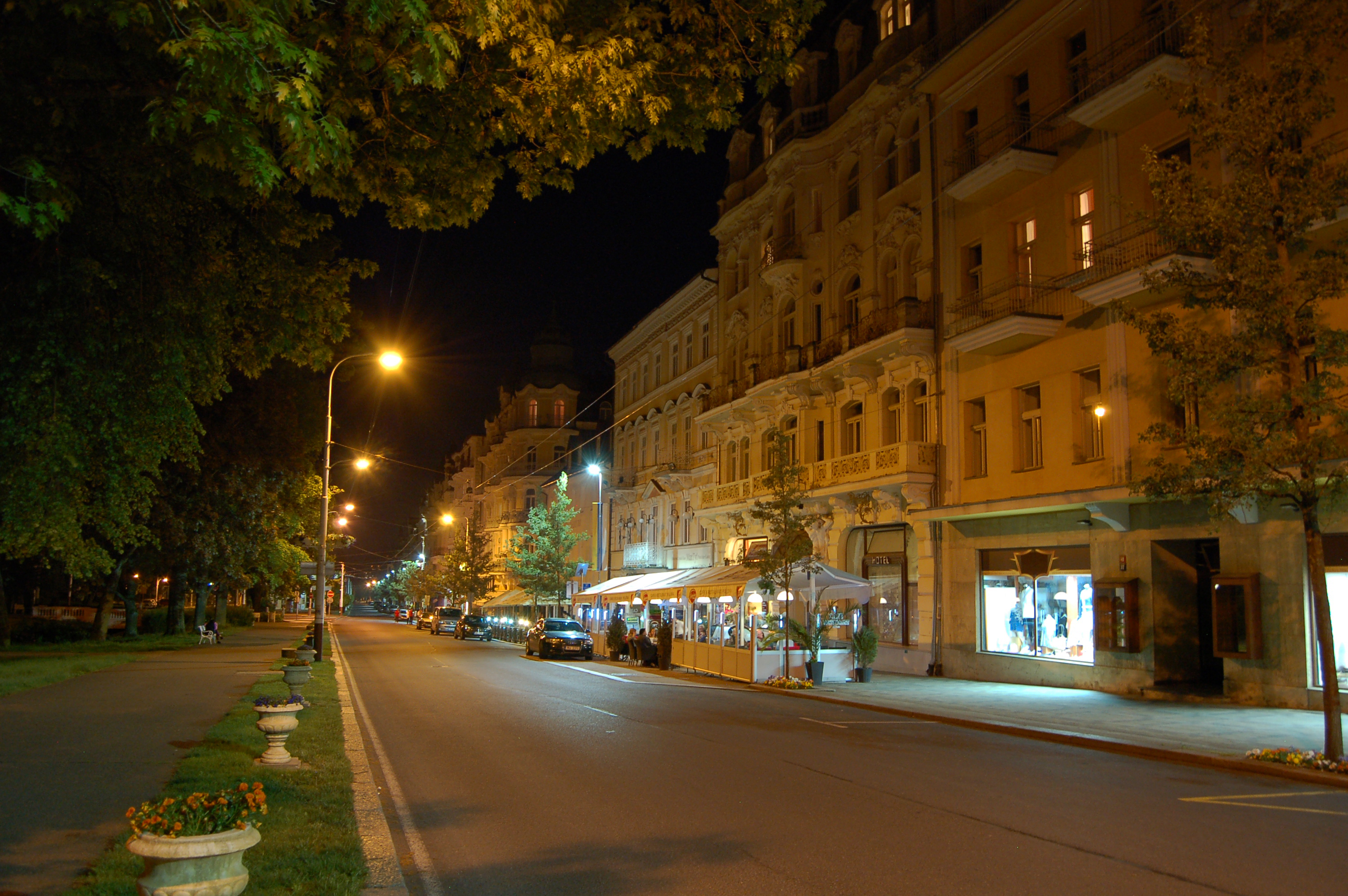 Mariánské Lázně - Main Street